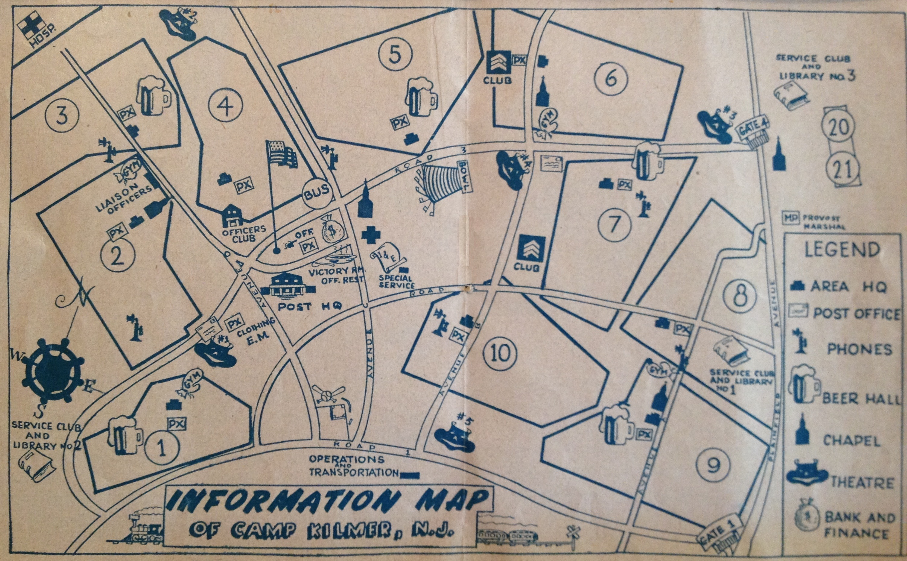 Sketch map showing the general layout of Camp Kilmer and its ten barrack areas as configured during late World War II.